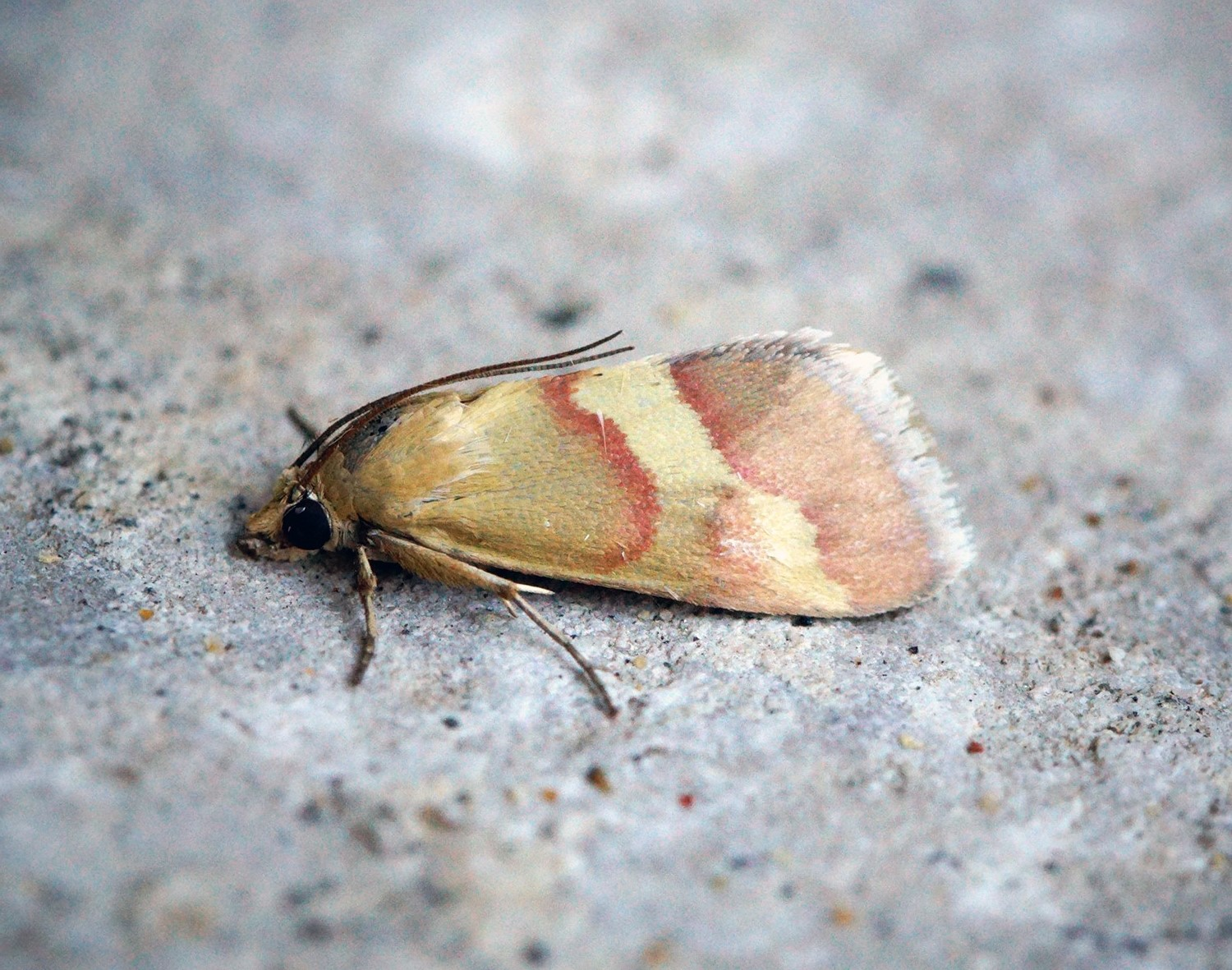 Here is a list with some pictures of the moths I found in Turkey when I went thee for two weeks between the 8th and 22nd of August, and were attracted to my 9w Blacklight tube up in the mountains. Some great new species were to be found in a region 5 miles South-West of Marmaris, and there were also some more familiar species that we record back home. I'll let the list and the photos do the talking. Some are still pending id and several specimens await dissection. Dark Sword-grass Vestal Dark Mottled Willow Small Mottled Willow Double-striped Pug Silver-Y Scarce Blackneck Small Marbled Purple Marbled Jersey Tiger Clancy's Rustic Nomophila noctuella Endotricha flammealis Bryophila rectilinea Cryphia ochsi Tree-lichen Beauty Tegostoma baphialis Spoladea recurvalis Micronoctua karsholti Blair's Mocha Etiella zinckenella Isturgia arenacearia Antigastra catalaunalis Emmelina monodactyla Scrobipalpa atriplicella Hellula undalis Problepsis ocellata Herpetogramma licarsisalis Metasia ophialis Bryophila vandalusiae